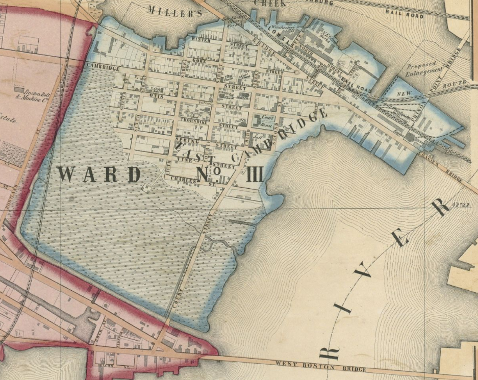 Ward no.3, East Cambridge, Massachusetts, USA. Detail from: Map of the city of Cambridge, Middlesex County, Massachusetts (Cambridge MA: George L. Dix, 1854)